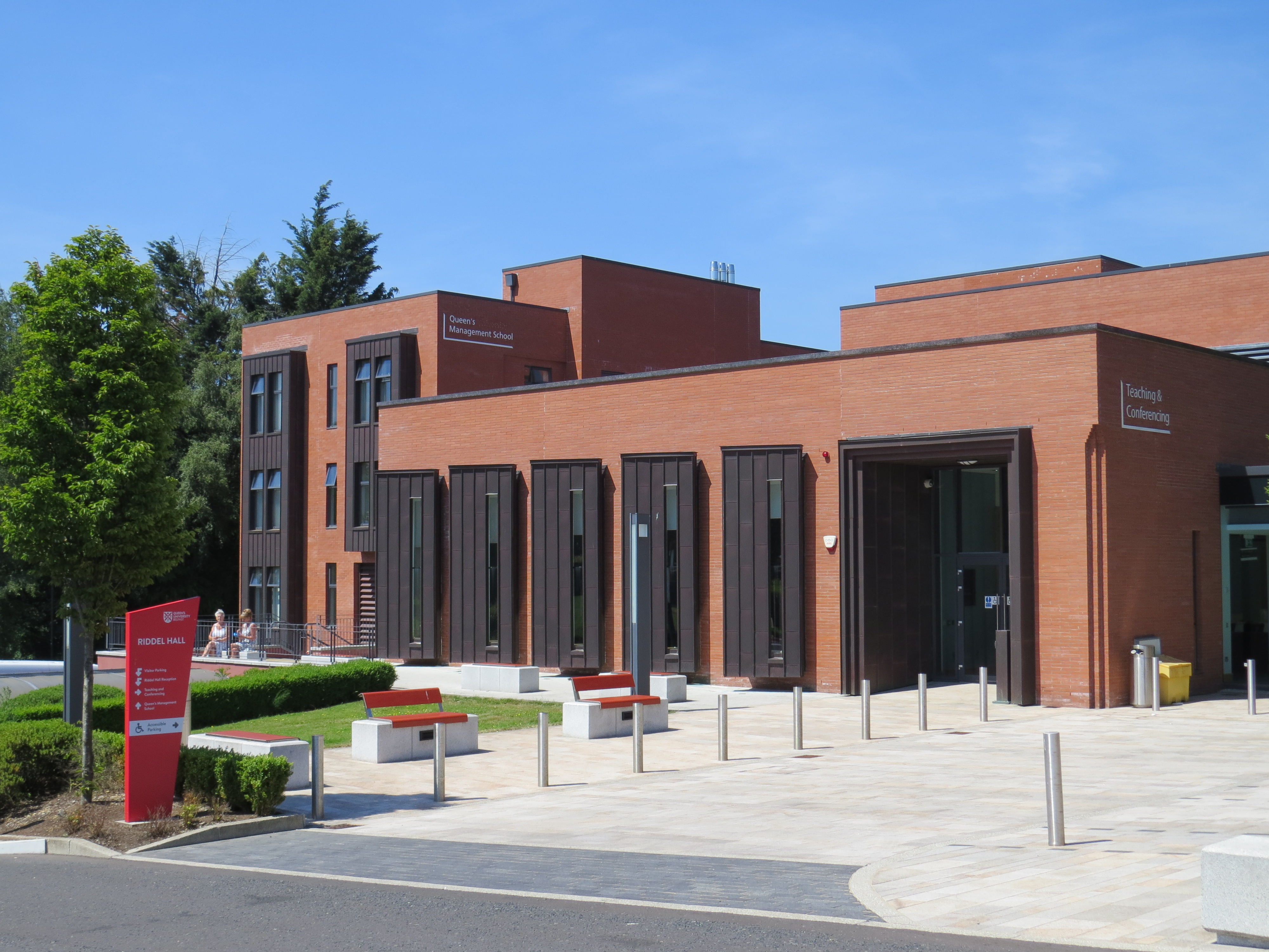 2011 addition of blocks 2 & 3 to the Riddel Hall site